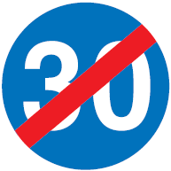 Luxembourg road sign diagram